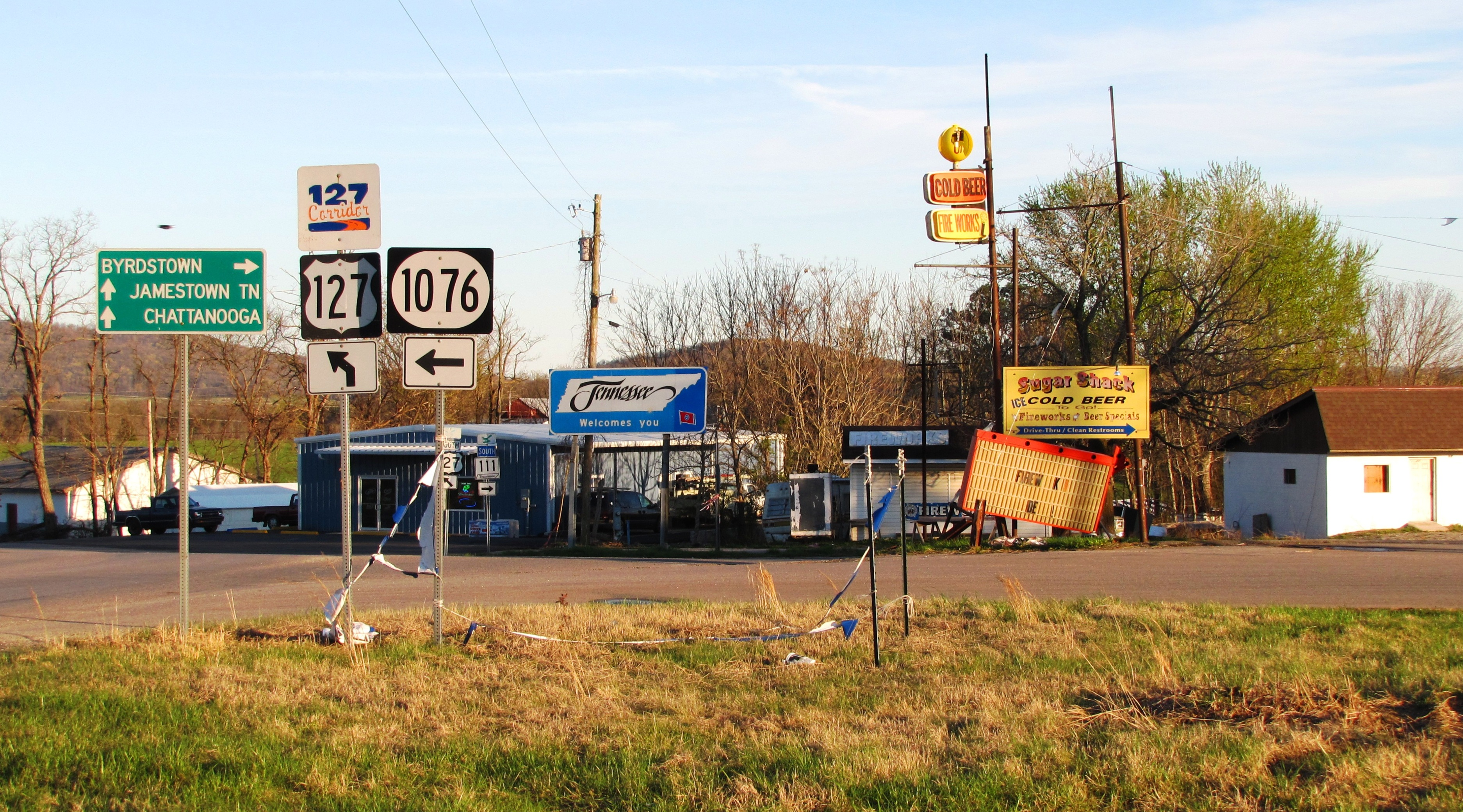 The intersection of Tennessee Highway 111, Kentucky Highway 1076, and US Route 127 in the community of Static at the Tennessee-Kentucky state line.